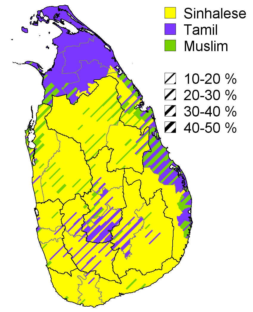 Distribution of Ethnic Groups in Sri Lanka on DS division level according to the Census 2012 Sinhalese Tamil (Sri Lankan Tamil and Indian Tamil) Muslim (Sri Lankan Moor and Malay) Note: some of the small DS divisions in Batticaloa district have been joined in the map.